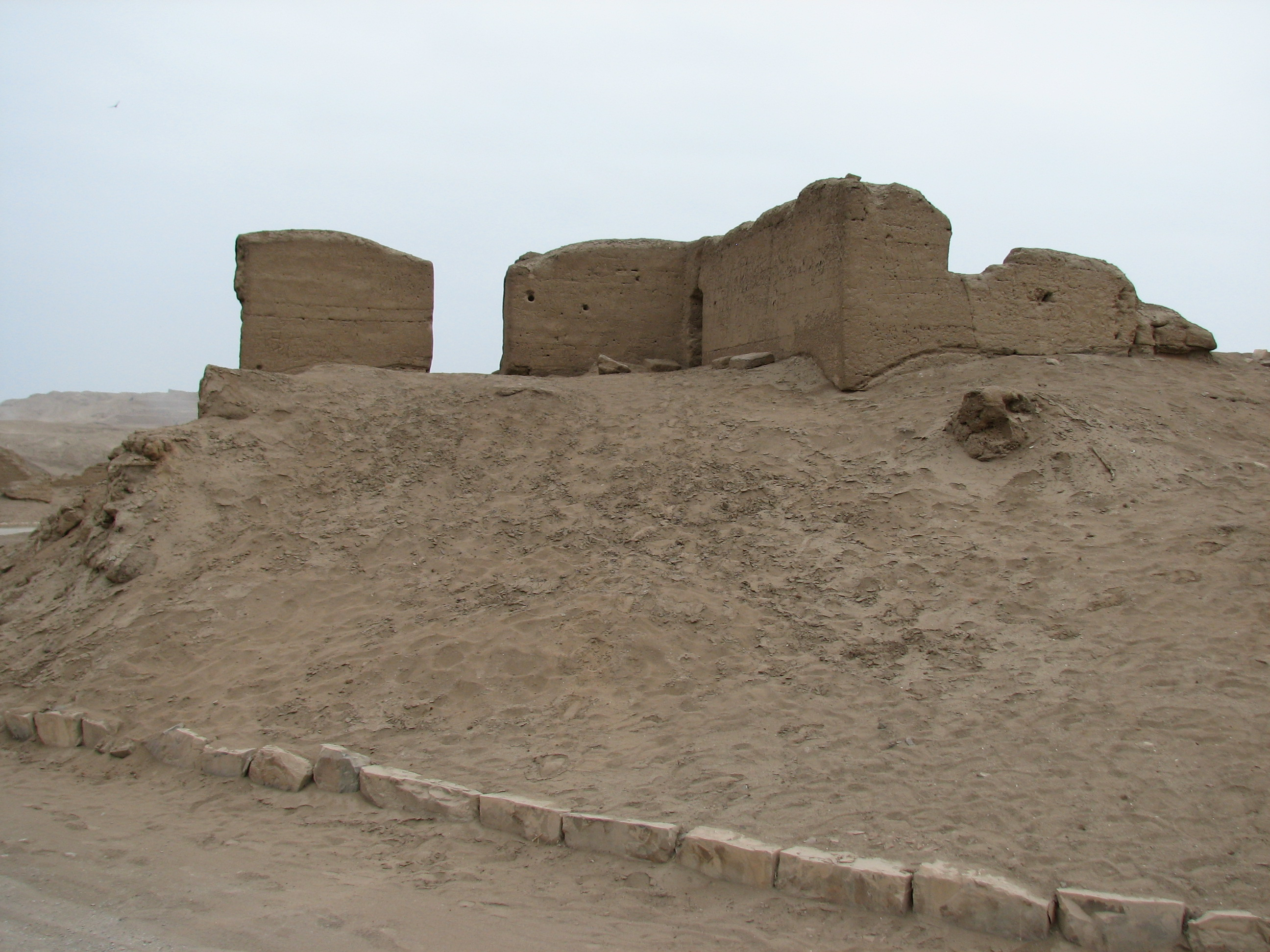 Pachacamac archaeological site in Peru